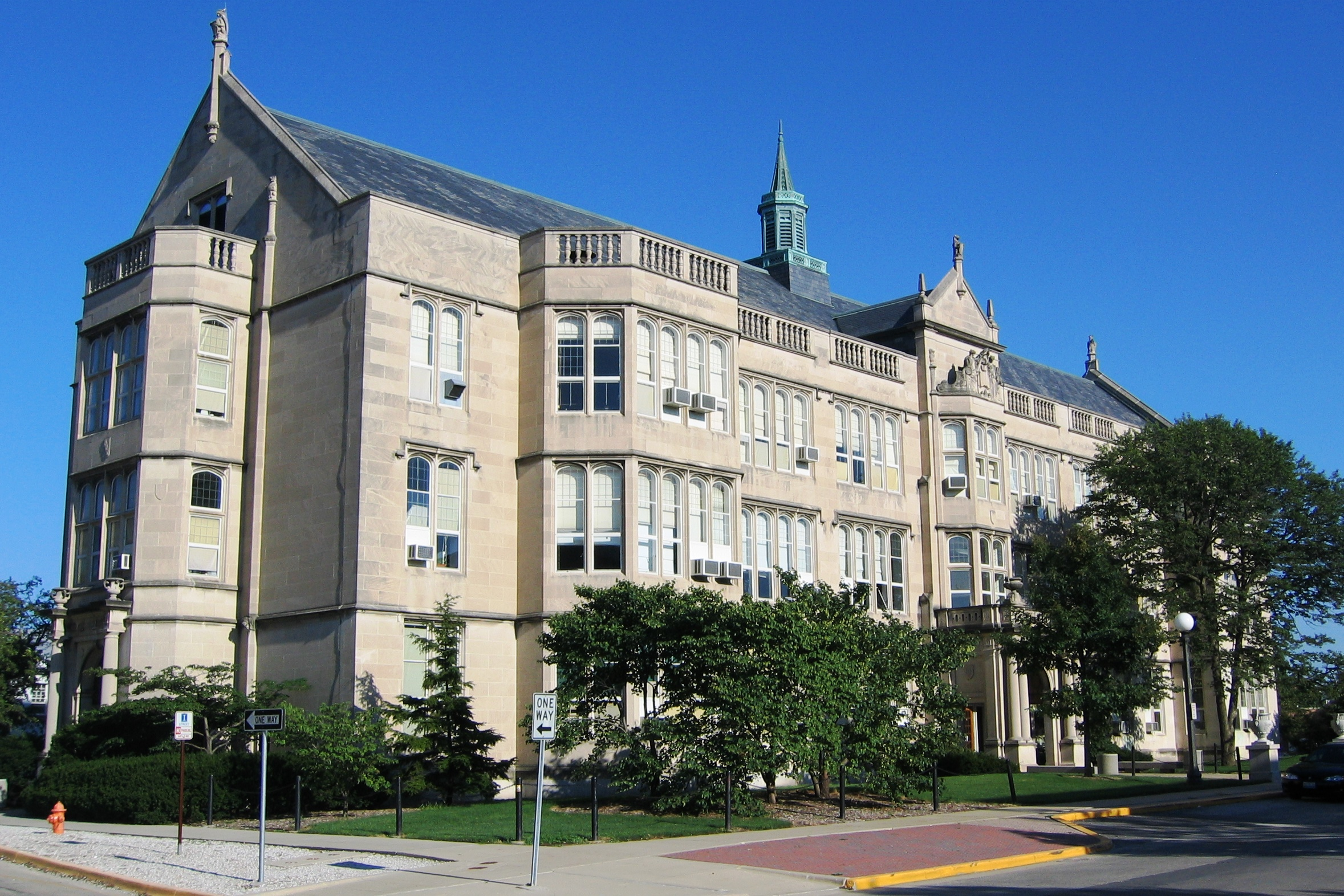 Photo of University Laboratory High School, Urbana, Illinois (also known as UniHigh) .